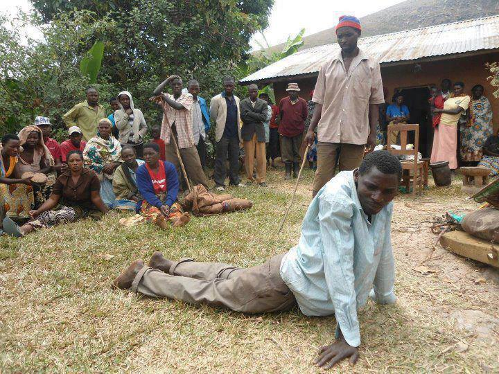 This is an image with the theme "Play" from: Uganda